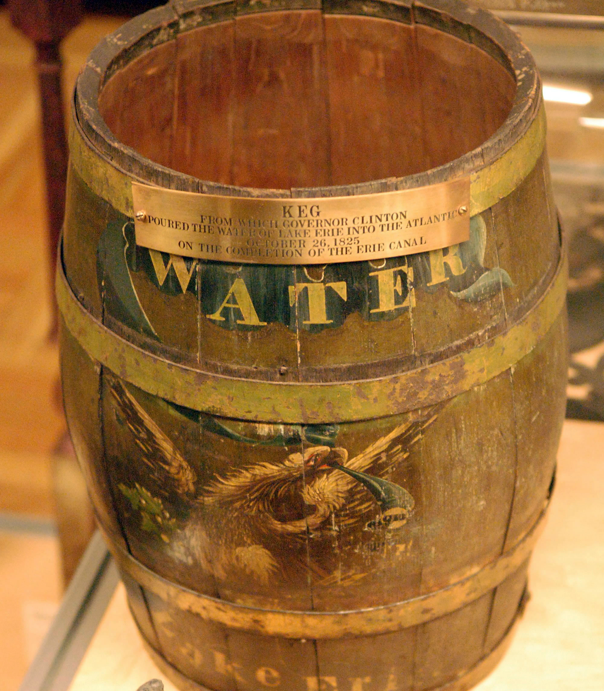 Keg with stand from Erie Canal celebration, ca. 1825. Wood, metal, paint: 16 x 12 in. ( 40.6 x 30.5 cm ). New-York Historical Society, X.48. Wikipedia Loves Art at the New-York Historical Society This photo of item # [1] at the New-York Historical Society was contributed under the team name "the_adverse_possessors" as part of the Wikipedia Loves Art project in February 2009. New-York Historical Society The original photograph on Flickr was taken by _cck_—please add a comment to the original Flickr page whenever a use has been made on Wikipedia or another project. Project galleries on Flickr: this institution, this team